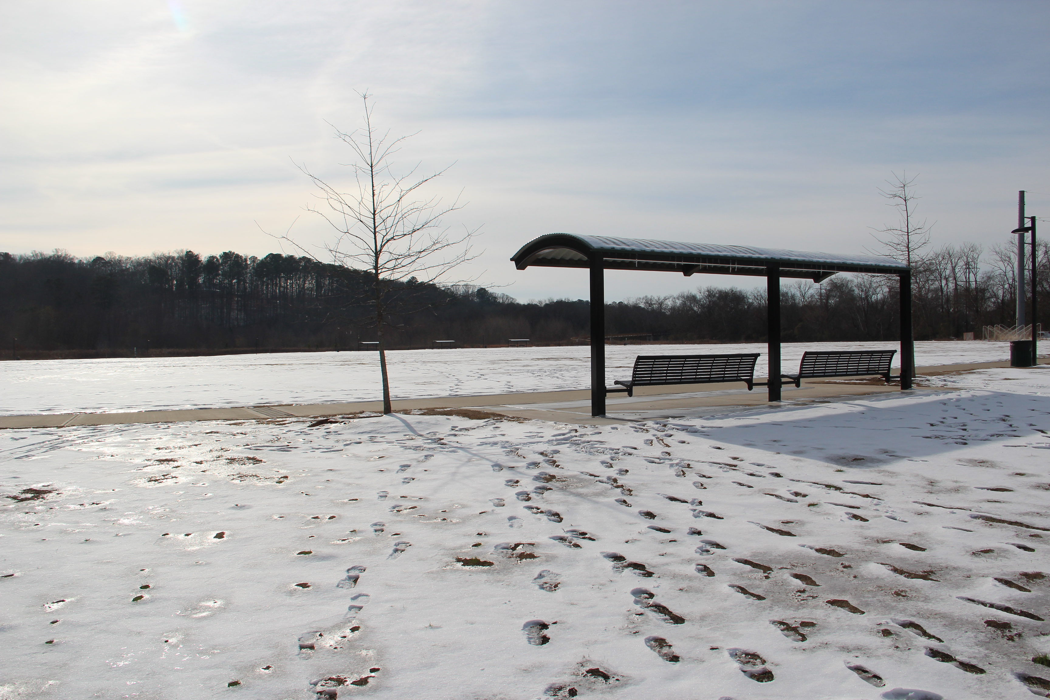 Etowah River Park in Canton, Georgia, January 2017